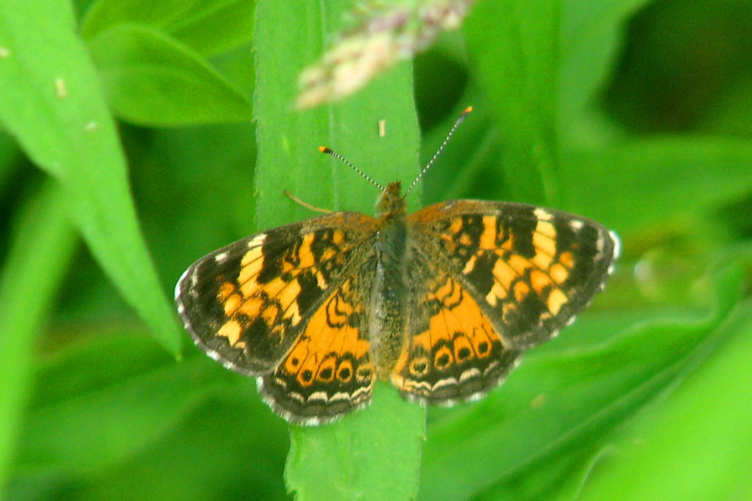 Tawny Crescent (Phyciodes batesii), Mer Bleue Conservation Area, Ottawa, Ontario